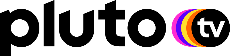 Pluto TV logo